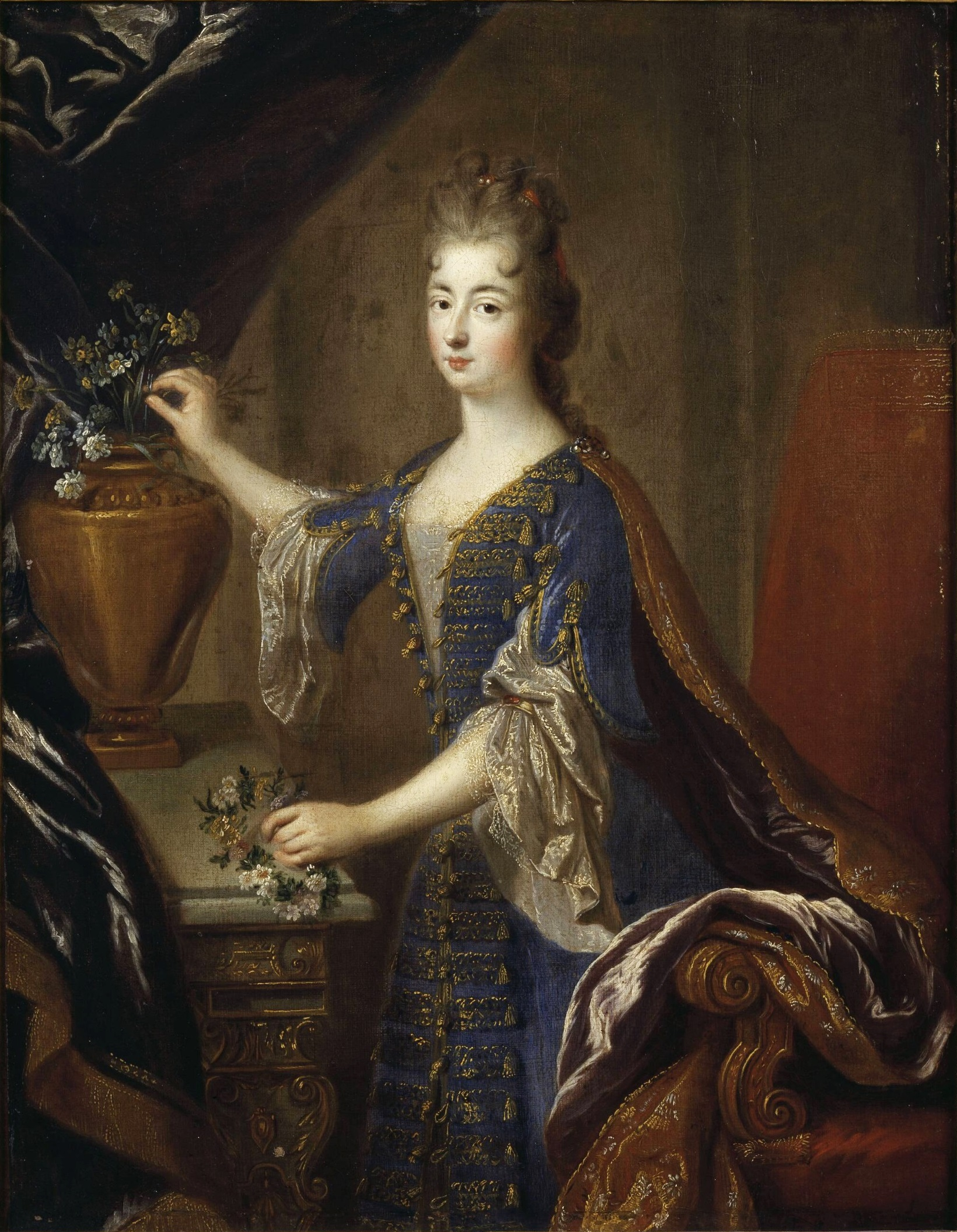 Portrait of Marie Anne de Bourbon (1666-1739), Princesse de Conti